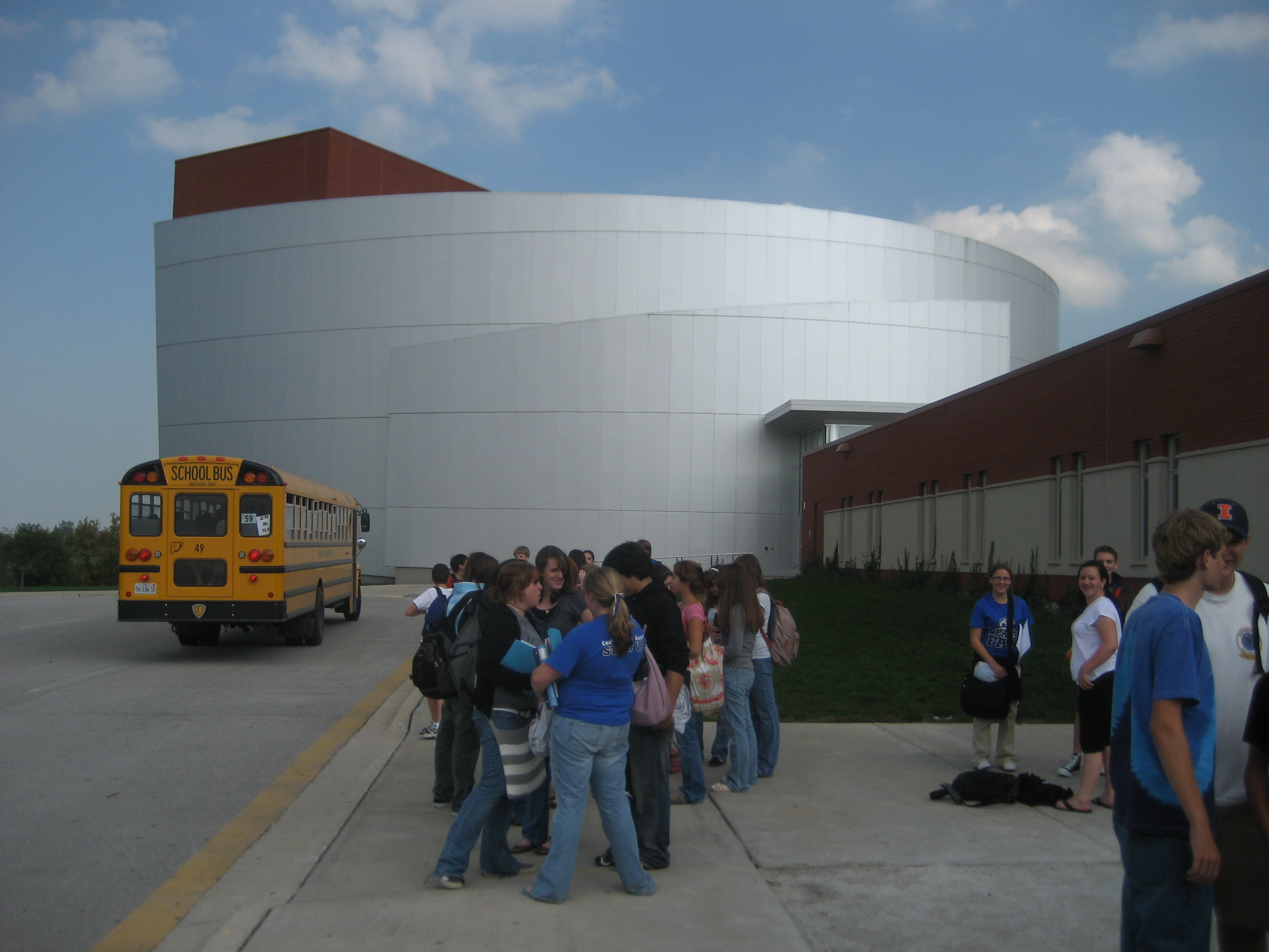 Lake Zurich High School's Performing Arts Center. Students standing on the adjacent sidewalk.